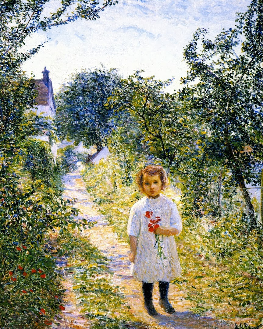 Little Girl on a Lane, Giverny